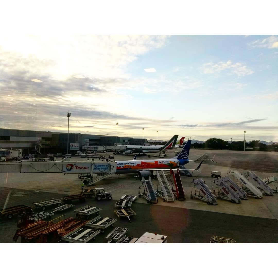 Galeão International Airport, Terminal 2, Brazil, Rio-de-Janeiro.